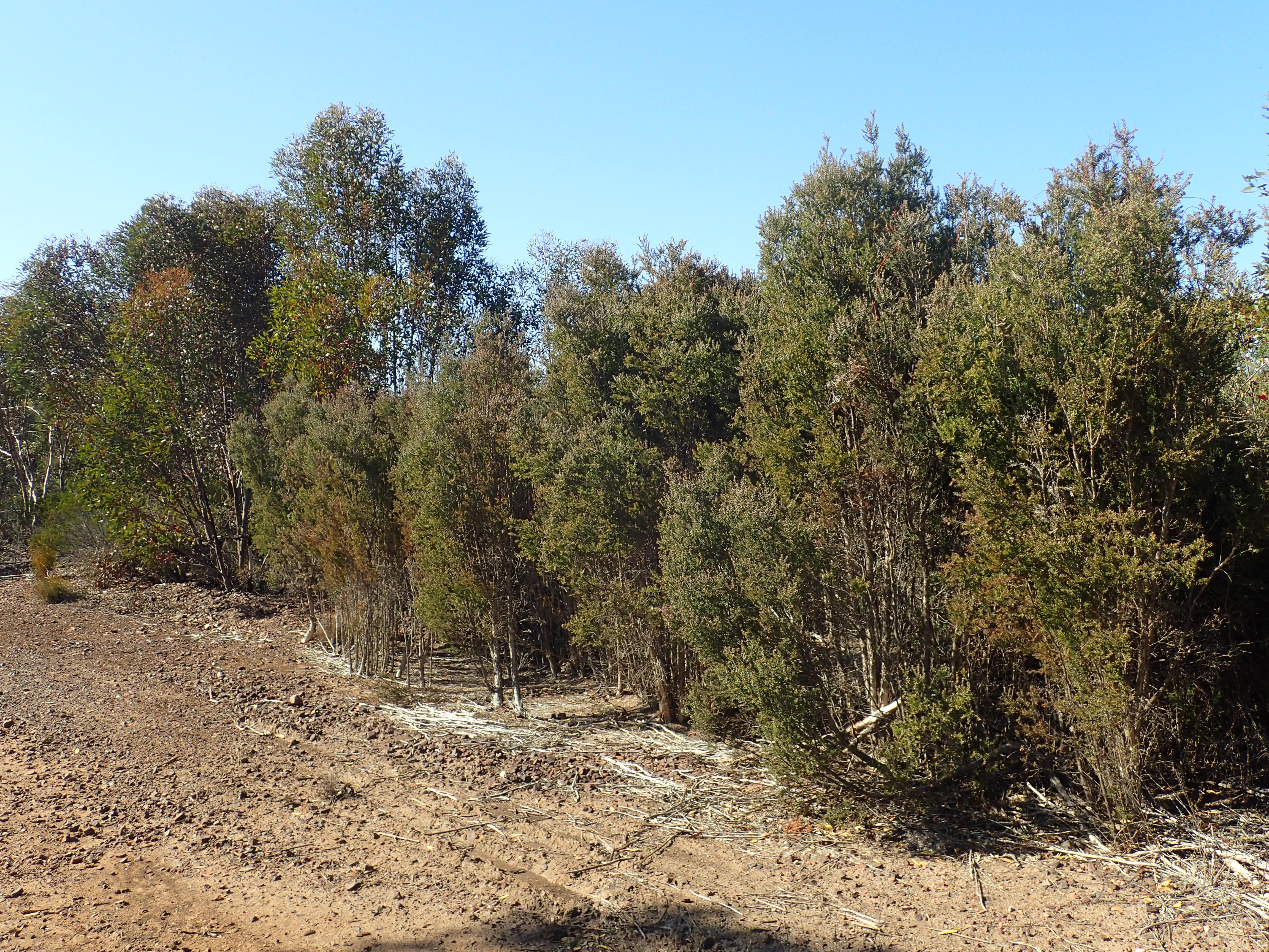 Melaleuca strobophylla growing near the South Coast Highway crossing of Bandalup Creek